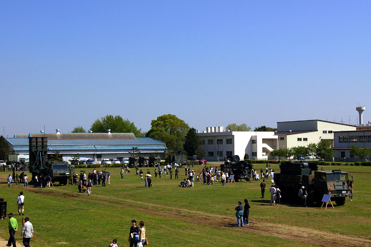 Taken by Los688,29-Apr-2007,JGSDF Camp-Shimoshizu.PD-self. ja:2007年4月29日、投稿者撮影。陸上自衛隊下志津駐屯地記念行事。